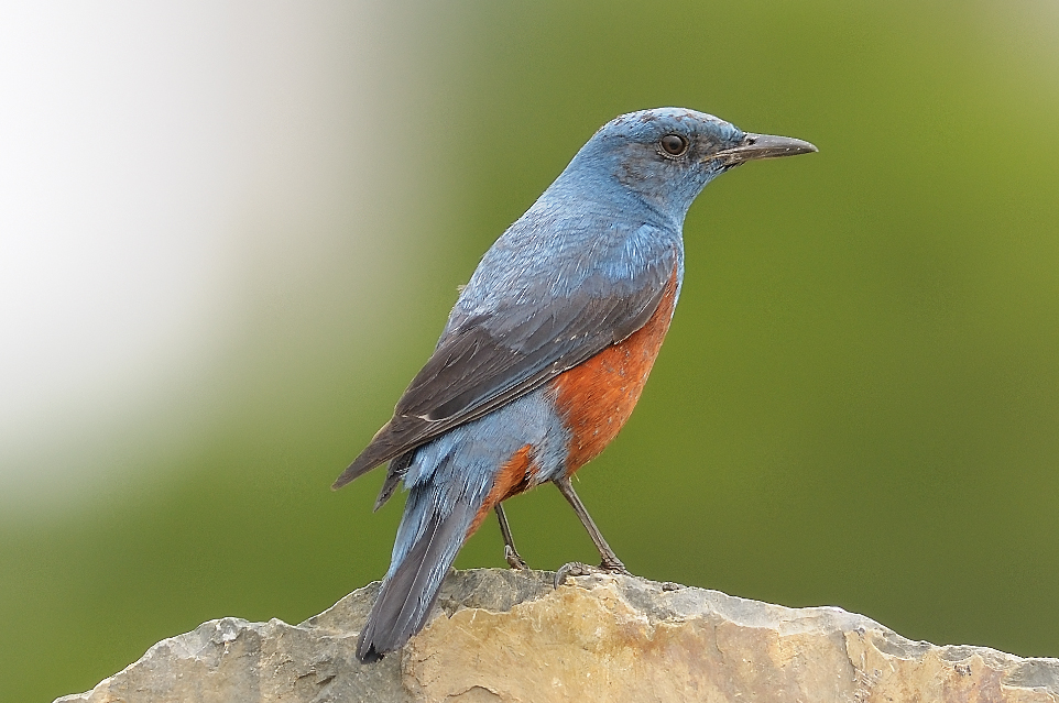 A male Blue Rock-thrush